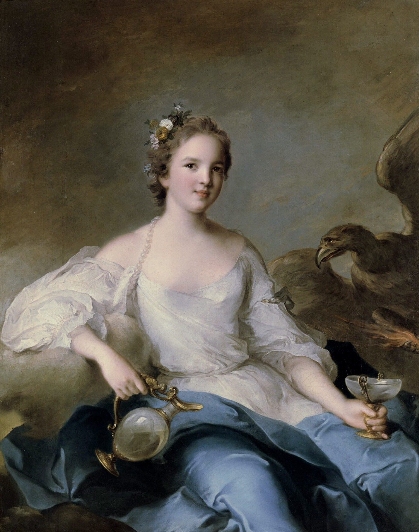 Portrait of Charlotte Louise de Rohan (1722-1786), daughter of Hercule Mériadec de Rohan, Prince of Guéméné and Louise Gabrielle Julie de Rohan; wife of Vittorio Filippo Ferrero-Fieschi, Principe di Masserano and Marquis de Crevecoeur.